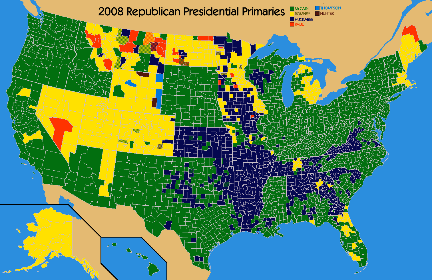 County-by-county results of the Republican Party Presidential Primaries 2008(states will have all counties in the color of the winner until there is more precise information available)